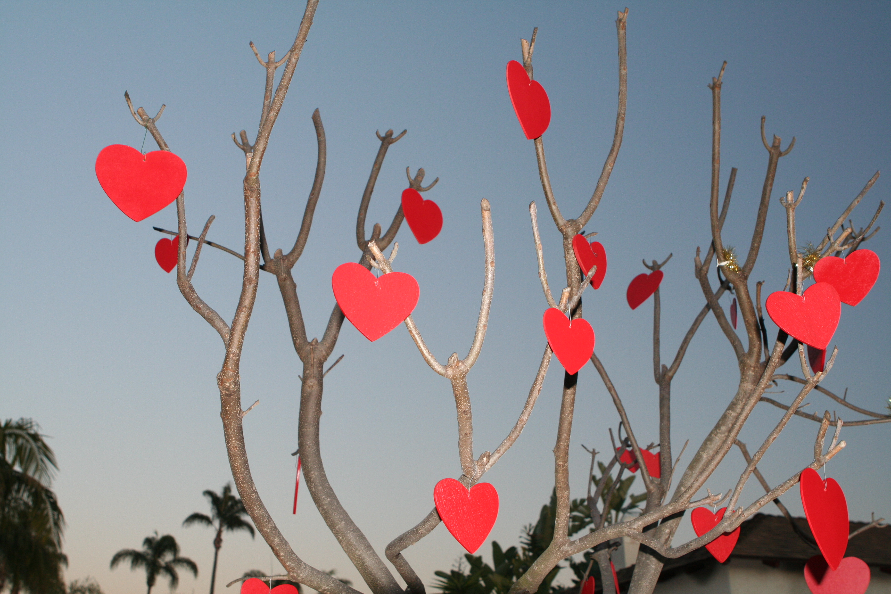 Tree decorated for Valentine's Day in San Diego, California